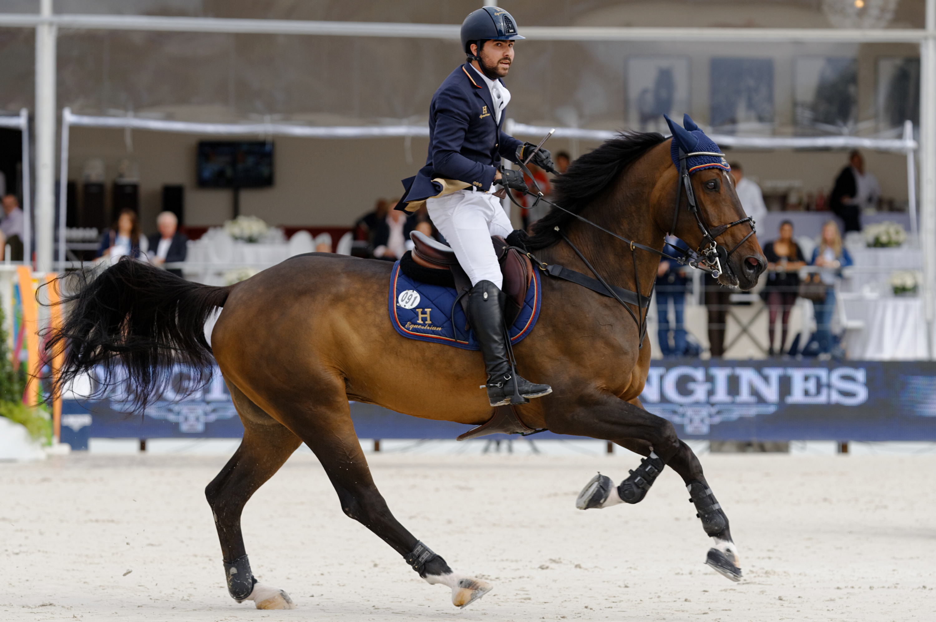 Syria's Ahmad Saber Hamcho rides Quintus 81 during the first round of the CSI 5* Longines Global Champions Tour Grand Prix in Paris on 5 July 2014.